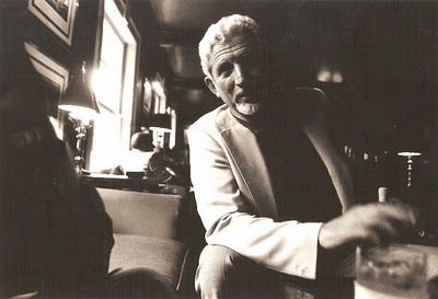 Francisco Madariaga en Caracas Venezuela 1995